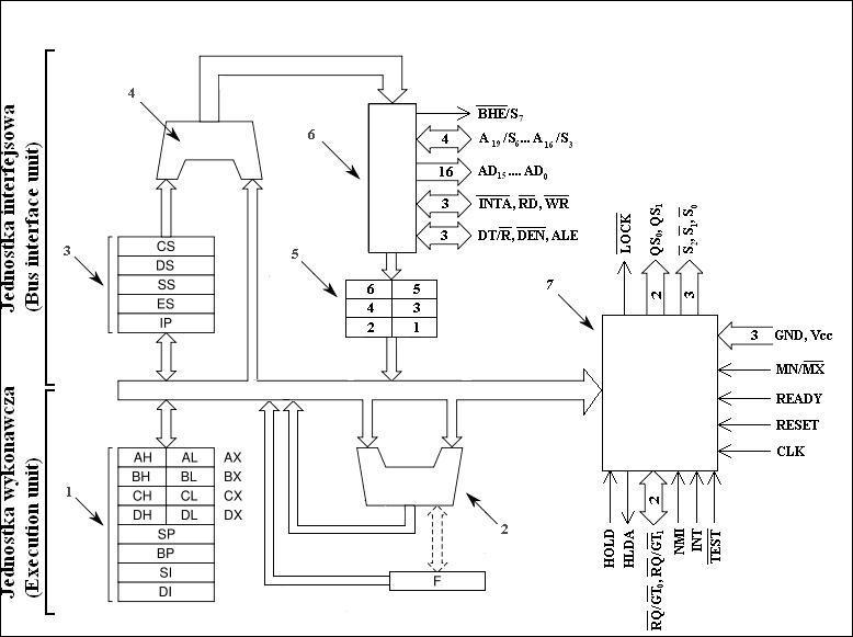 Block diagram of 8086 microprocessor.